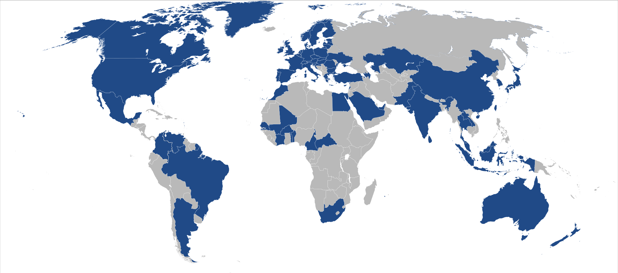 Allianz global locations